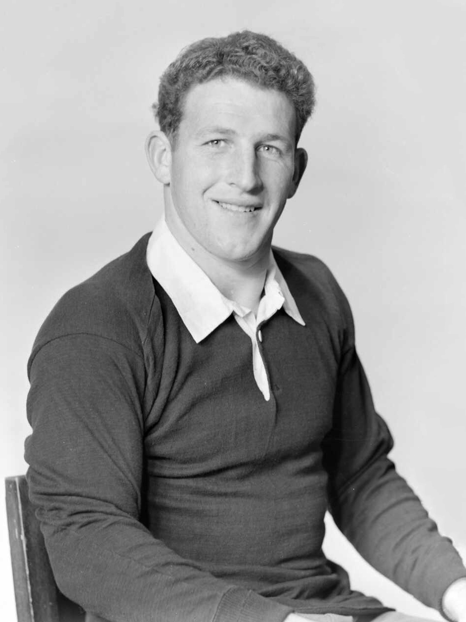 Photograph of rugby player William Fergus McCormick, known as Fergie McCormick, taken by Crown Studio Ltd of Wellington.